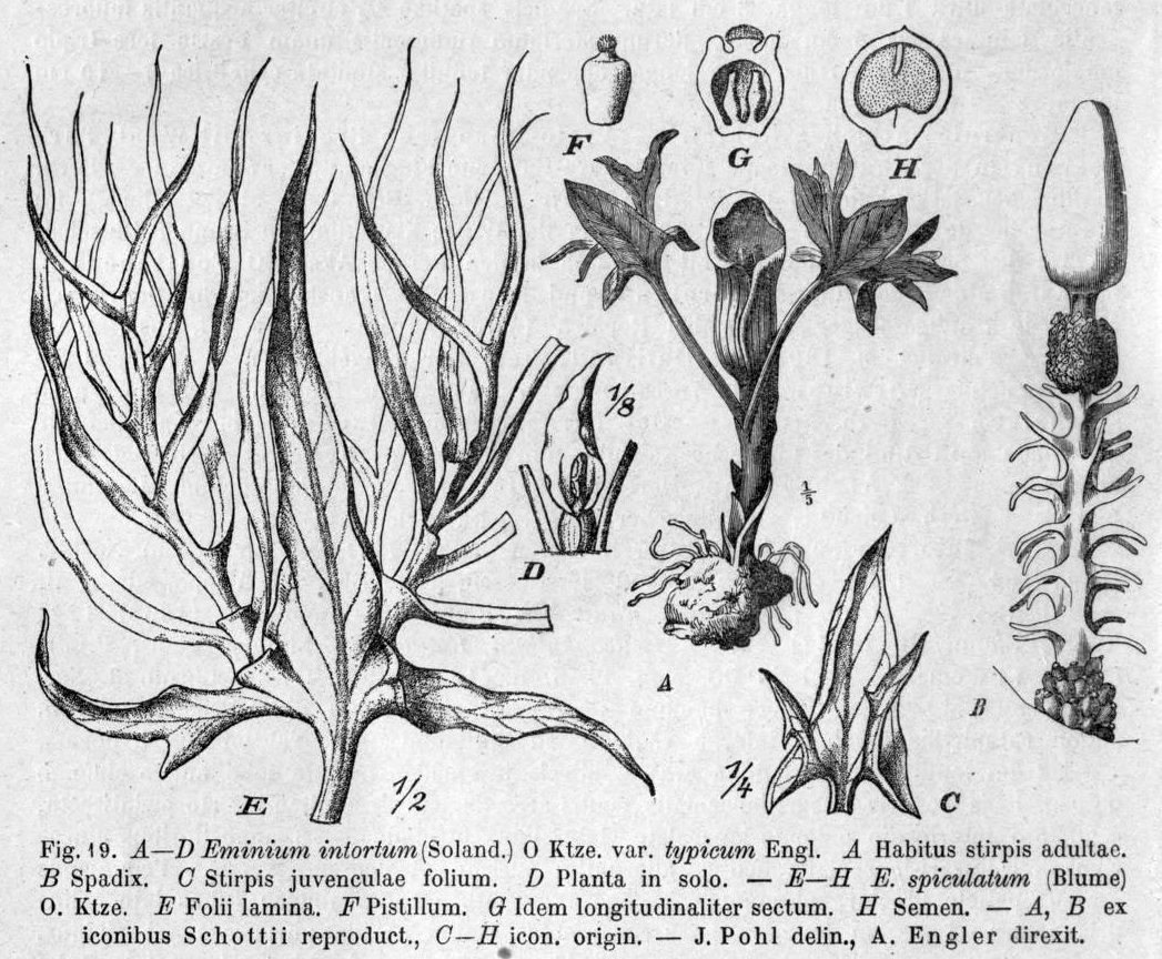 Eminium intortum botanical drawing